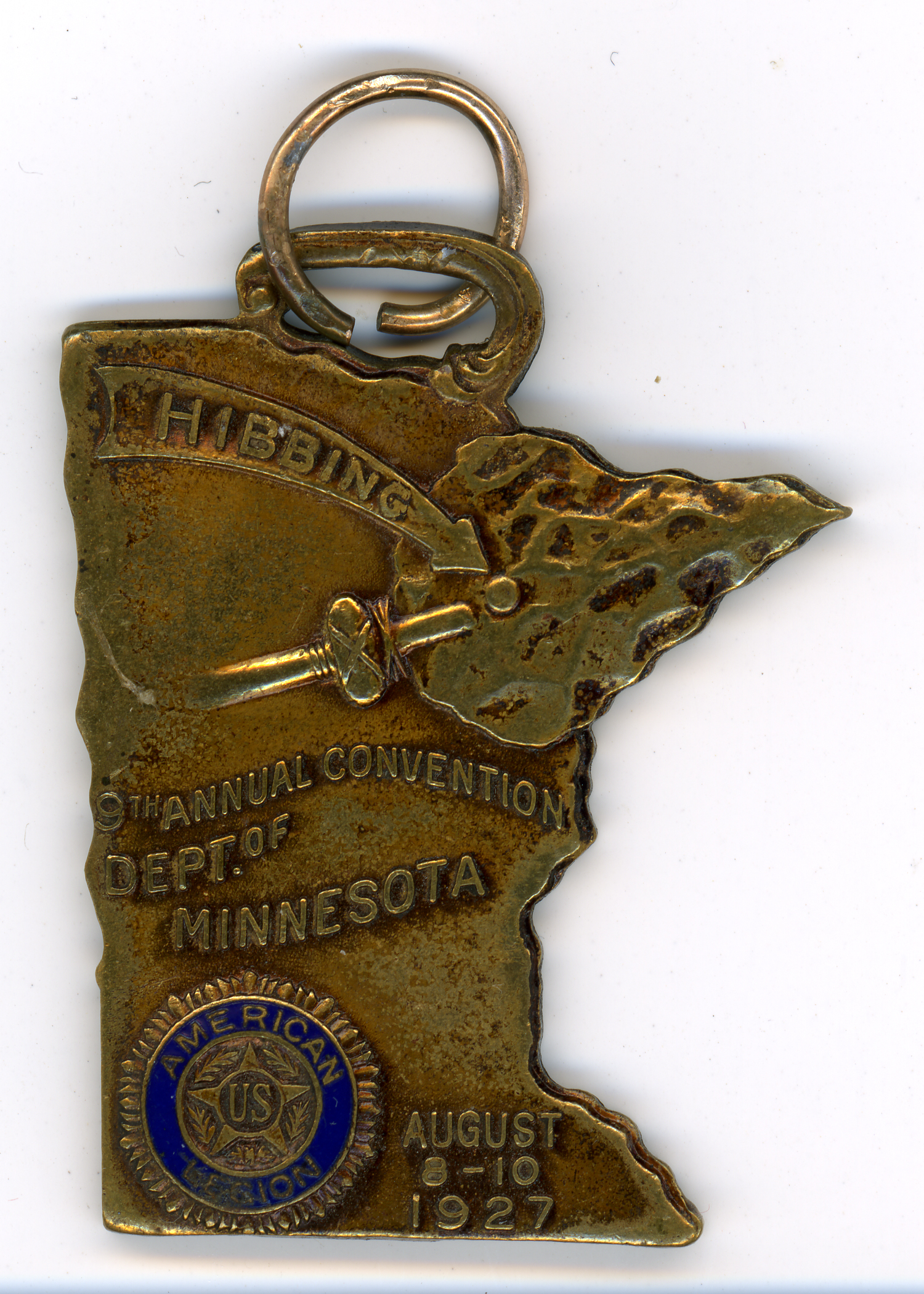 Brass medal reverse.